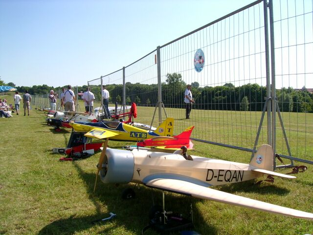 Model aircrafts